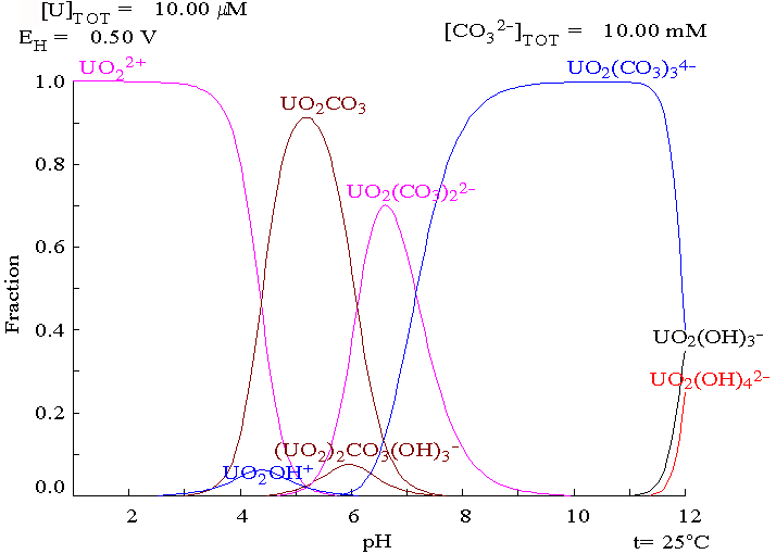 I drew it with Medusa